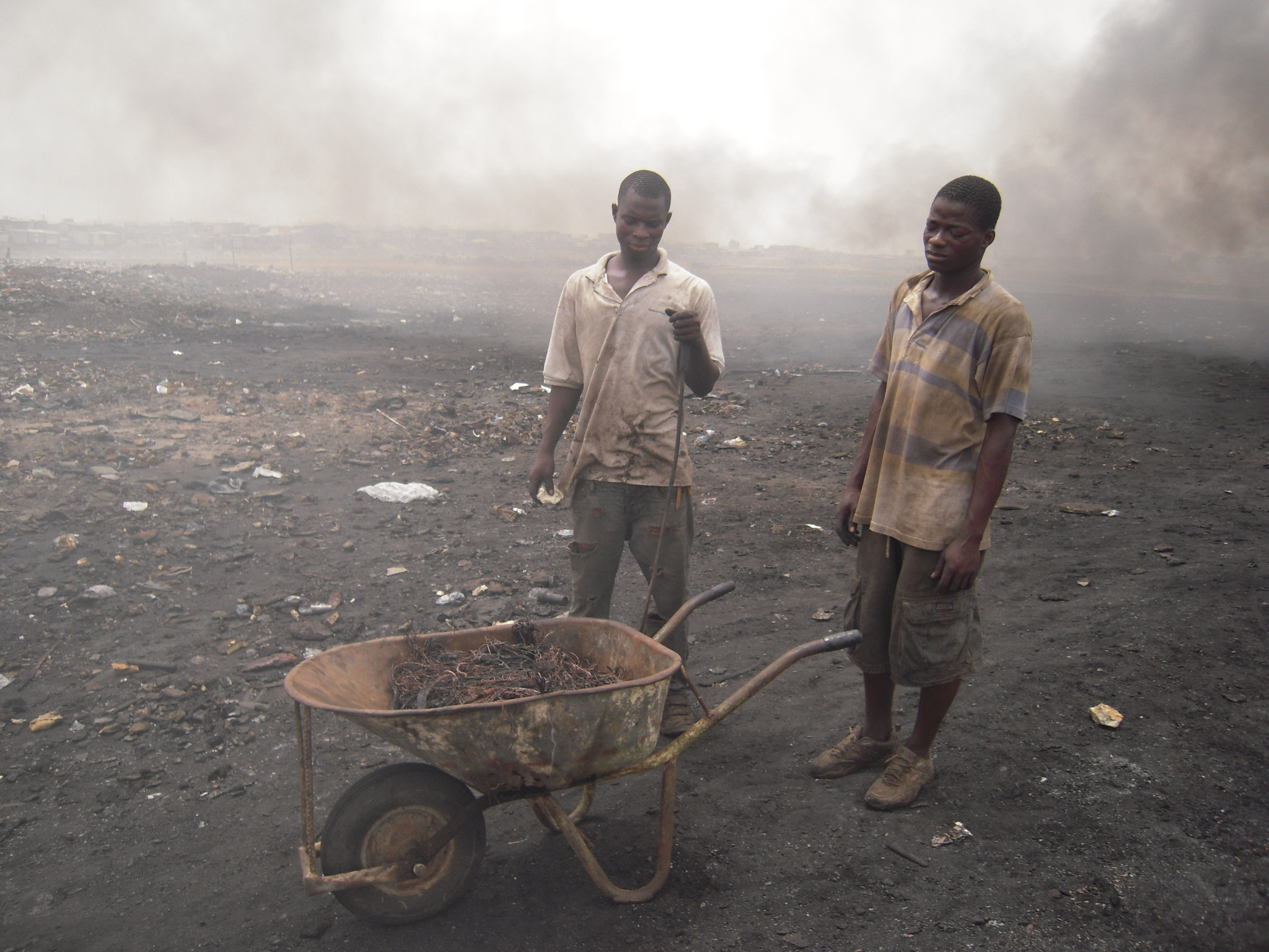 Workers following burning of plastic off wires for copper recovery